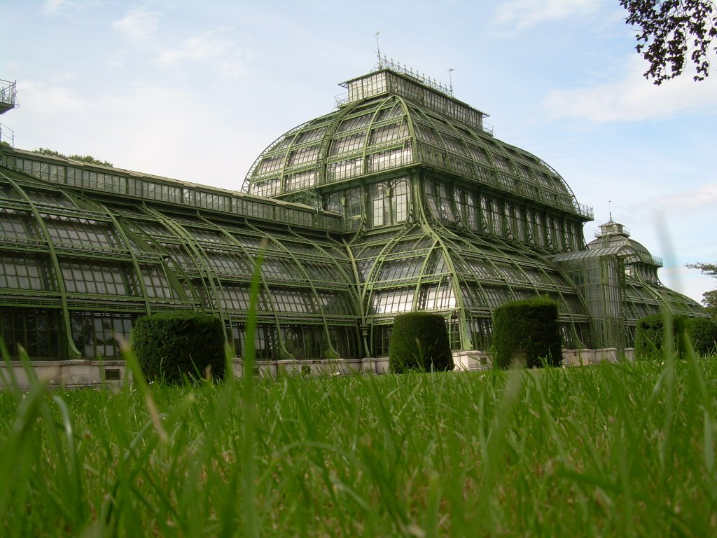 Palm pavilion in Schönbrunn Palace's garden, Vienna, Austria